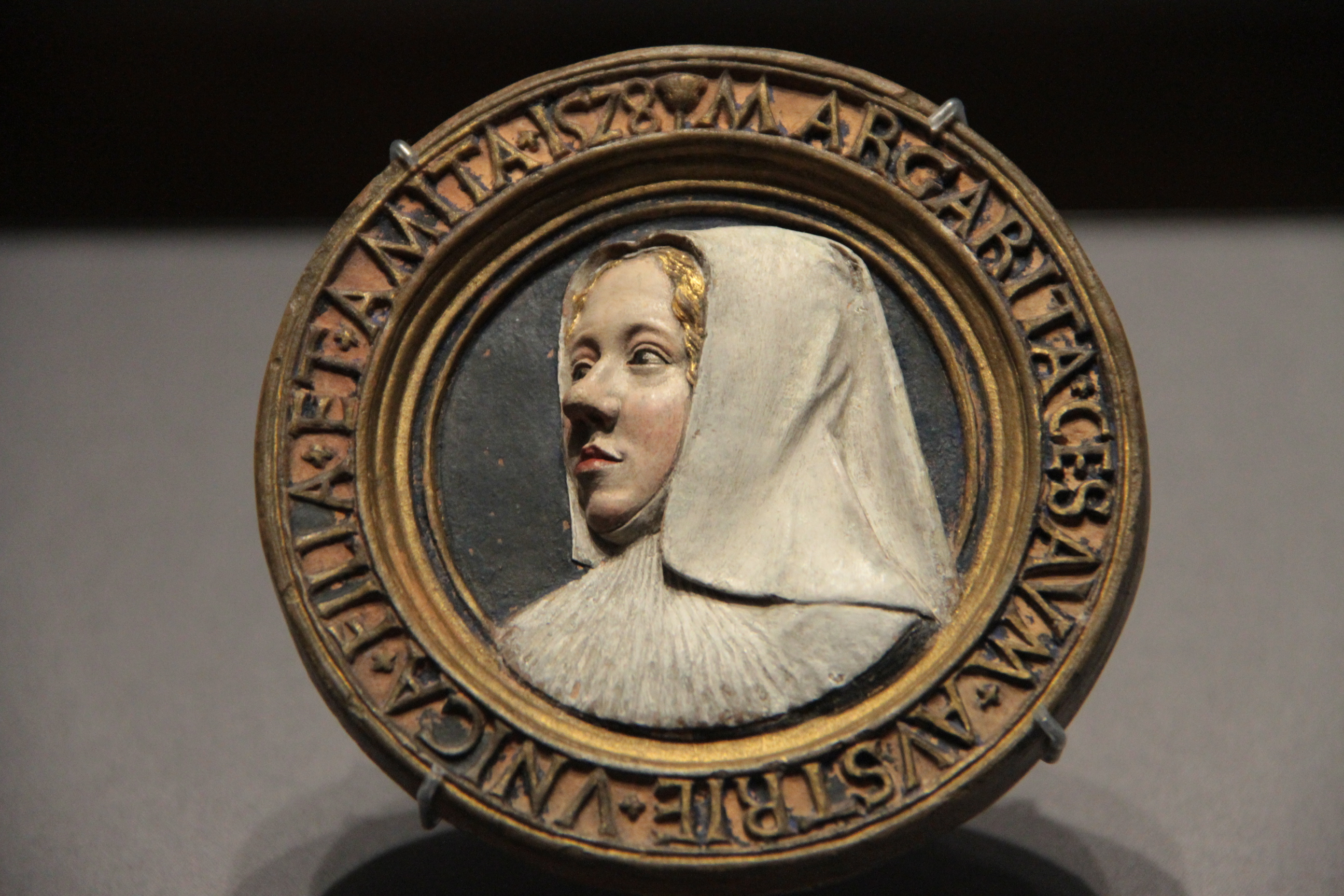 Portrait of Archduchess Margaret of Austria (10 January 1480 – 1 December 1530) as a widow by Conrat Meit. 1550/51.